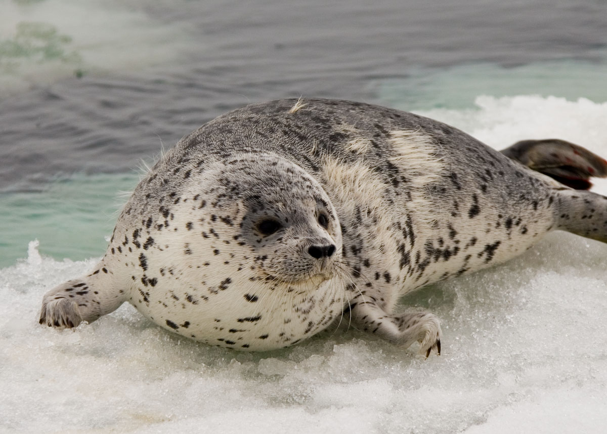 Spotted Seal Phoca largha, Bering Sea, Alaska.